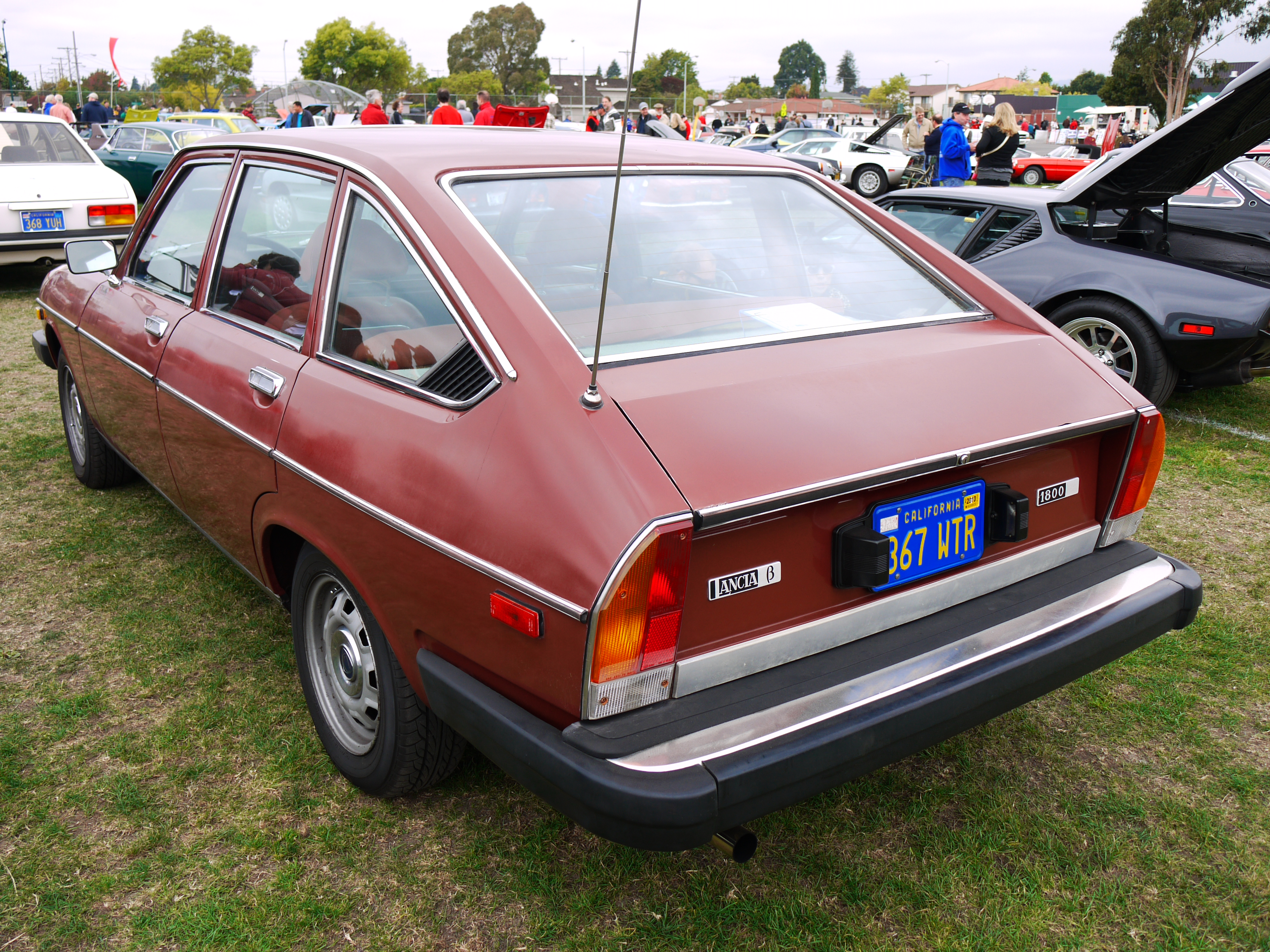 Lancia_Beta_1800